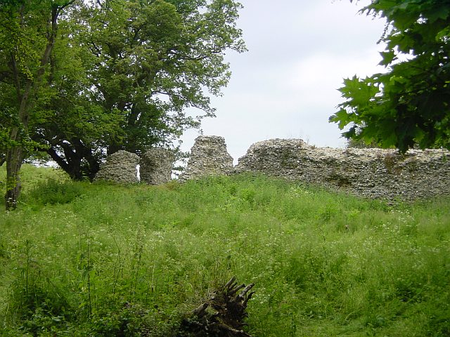 Thurnham Castle or Godard's Castle is situated to the north of the village of Thurnham which is 3 miles north-east of Maidstone, Kent (grid reference TQ808582).